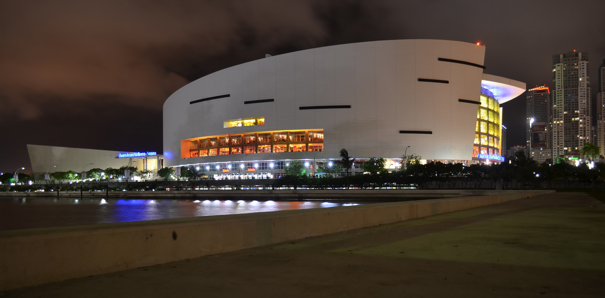 American Airlines Arena, home of the Miami Heat in Downtown Miami. Taken from the north looking towards downtown.